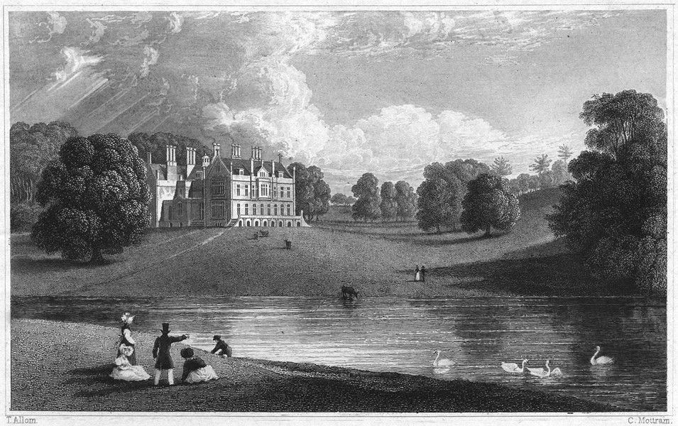 Kitley House, Devon, an 1829 print engraved by C. Mottram and drawn by T. Allom. At the period the house was still the residence of the Pollexfen Bastard family.